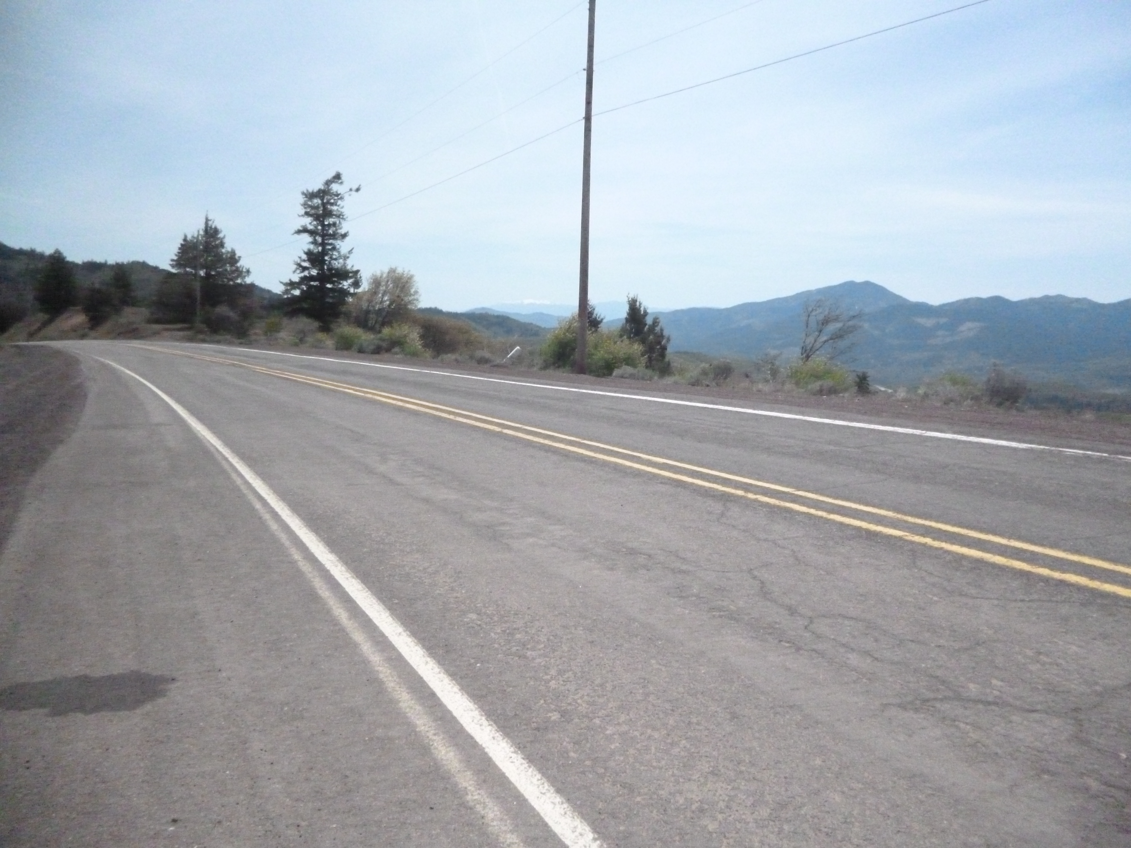 Old US 99 at Siskiyou Summit at Oregon/California border.